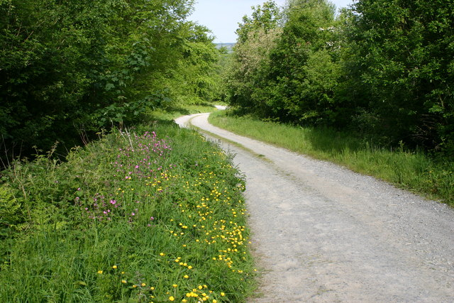 Track on Mynydd Llwydiarth.